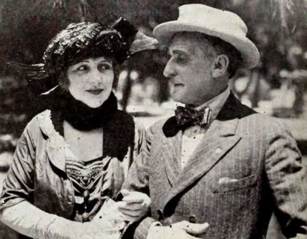 Actors Lila Leslie and Paul Weigel (1867 – 1951), on page 68 of the September 10, 1921 Exhibitors Herald. The caption of the still indicates that the two were to play Mr. and Mrs. Cruelywed in a series of Arrow comedy short films, however per the IMDB only one film Husband and Strife (1922) was made and Dot Farley played the part of Mrs. Cruelywed.